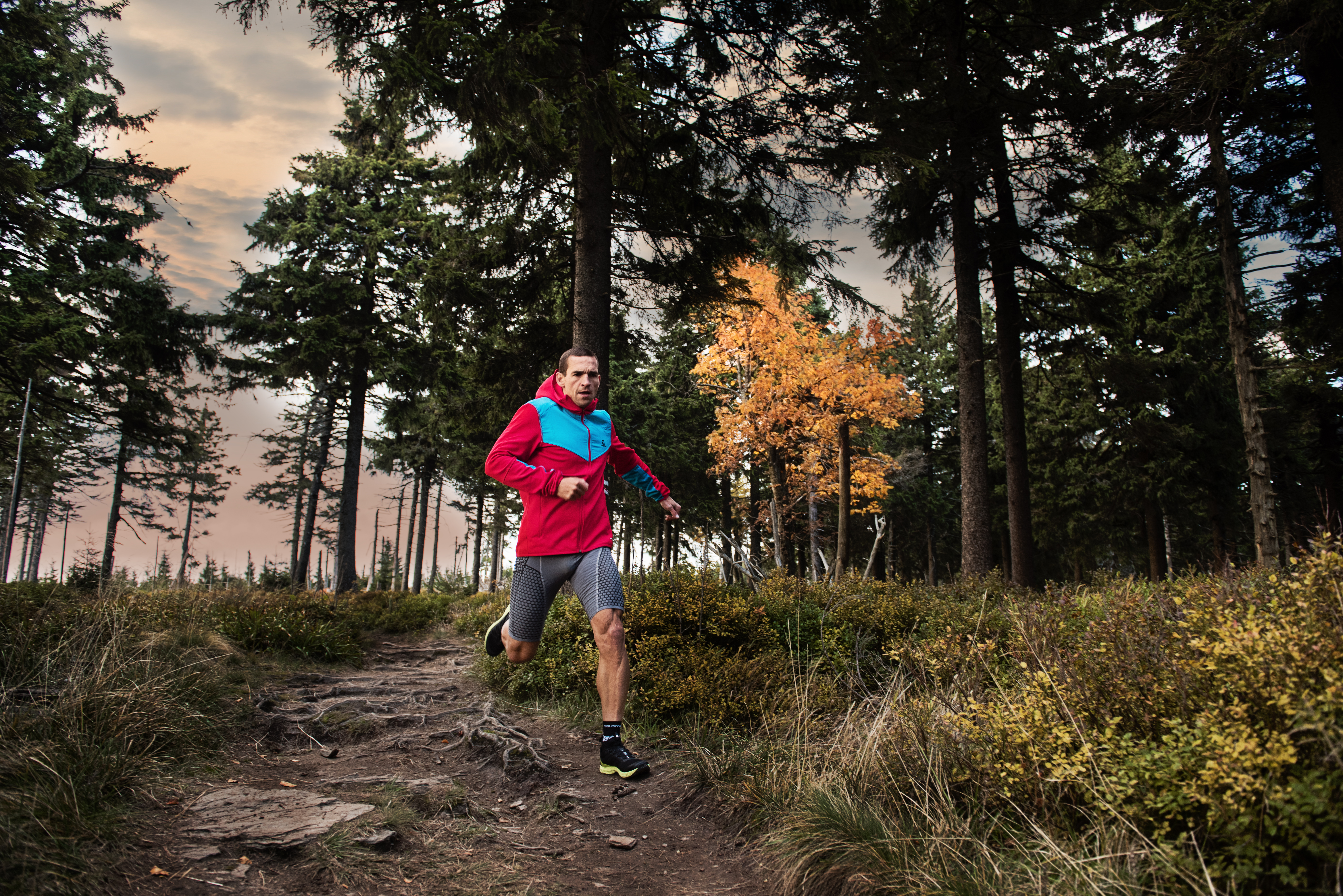 Tomáš Petreček - běh v Beskydech